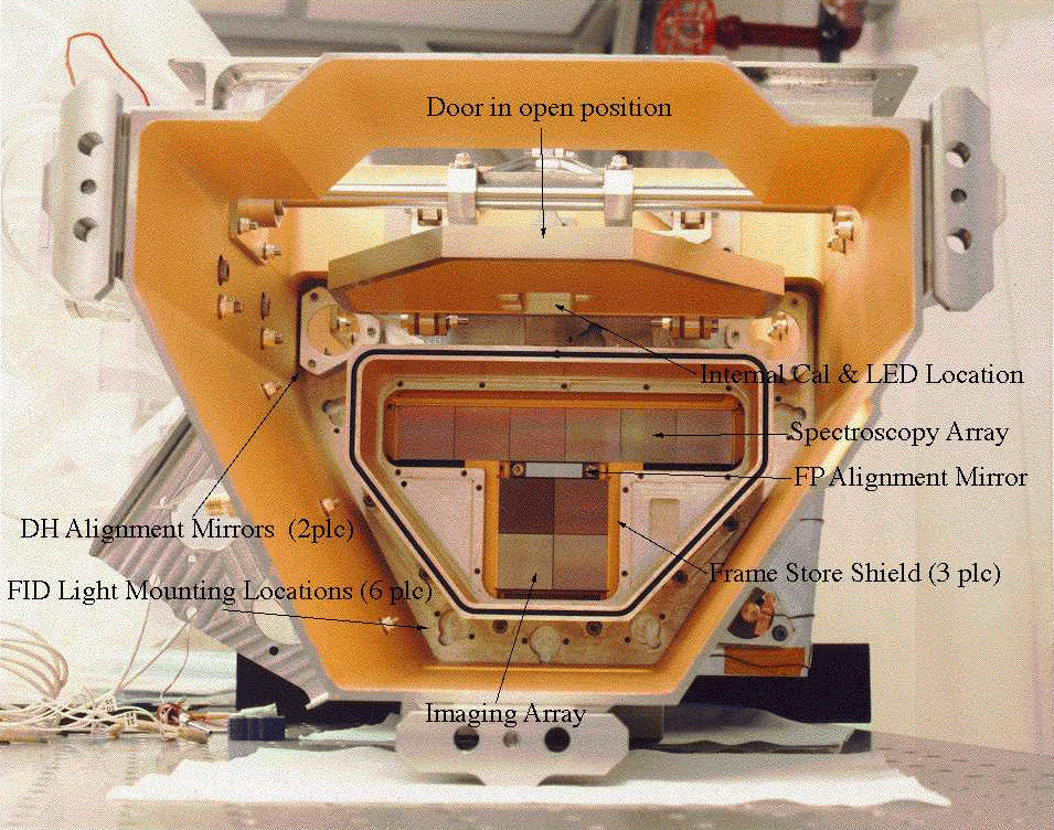 Chandra X-ray space observatory of the NASA : View of ACIS as seen by HRMA From this view, you can see the ACIS focal plane array as it would appear from the vantage point of looking down the telescope. The CCD chips are in the square (imaging) and rectangular (spectroscoping) arrays. In a flight configuration, you would not see the arrays, as the optical blocking filters would be in place.